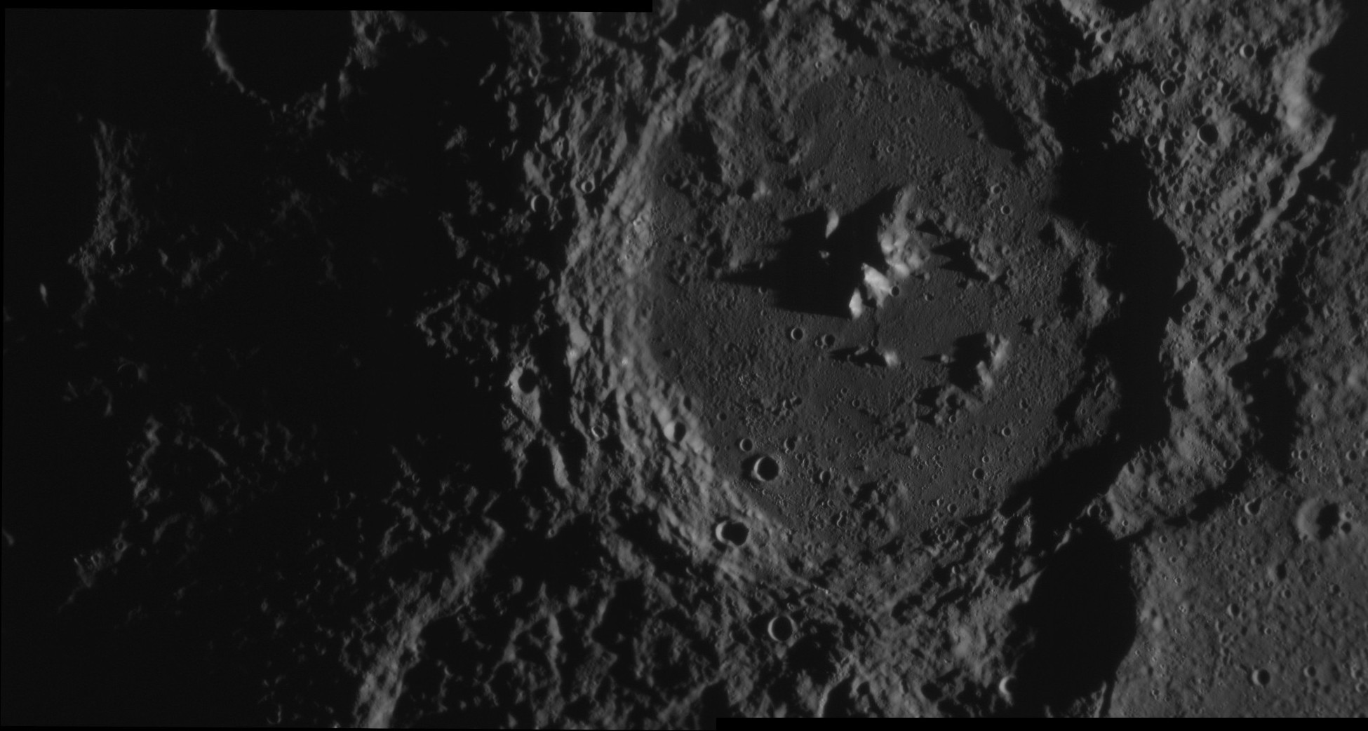 Joplin crater on Mercury, close to the terminator. Mosaic of two MESSENGER Narrow Angle Camera images (EN0250041662M and EN0250041657M). Emission Angle: 14-19 Incidence Angle: 84.9-88.6 Latitude: -38.8 Longitude: 24.3 Phase Angle: 69.6-70.9